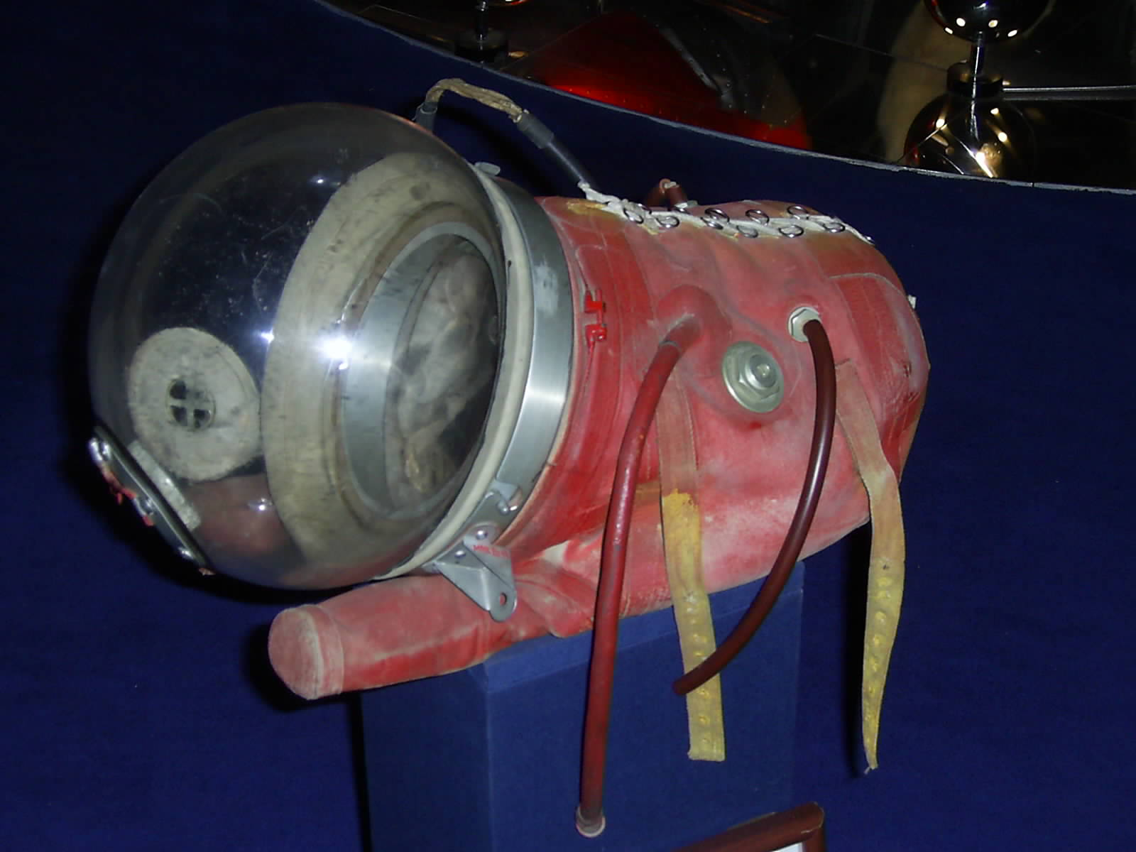 The original space suit that the experimental space dog, Laika, wore into space on November the 3rd, 1957. The space suit is now displayed at the Moscow Space Museum.